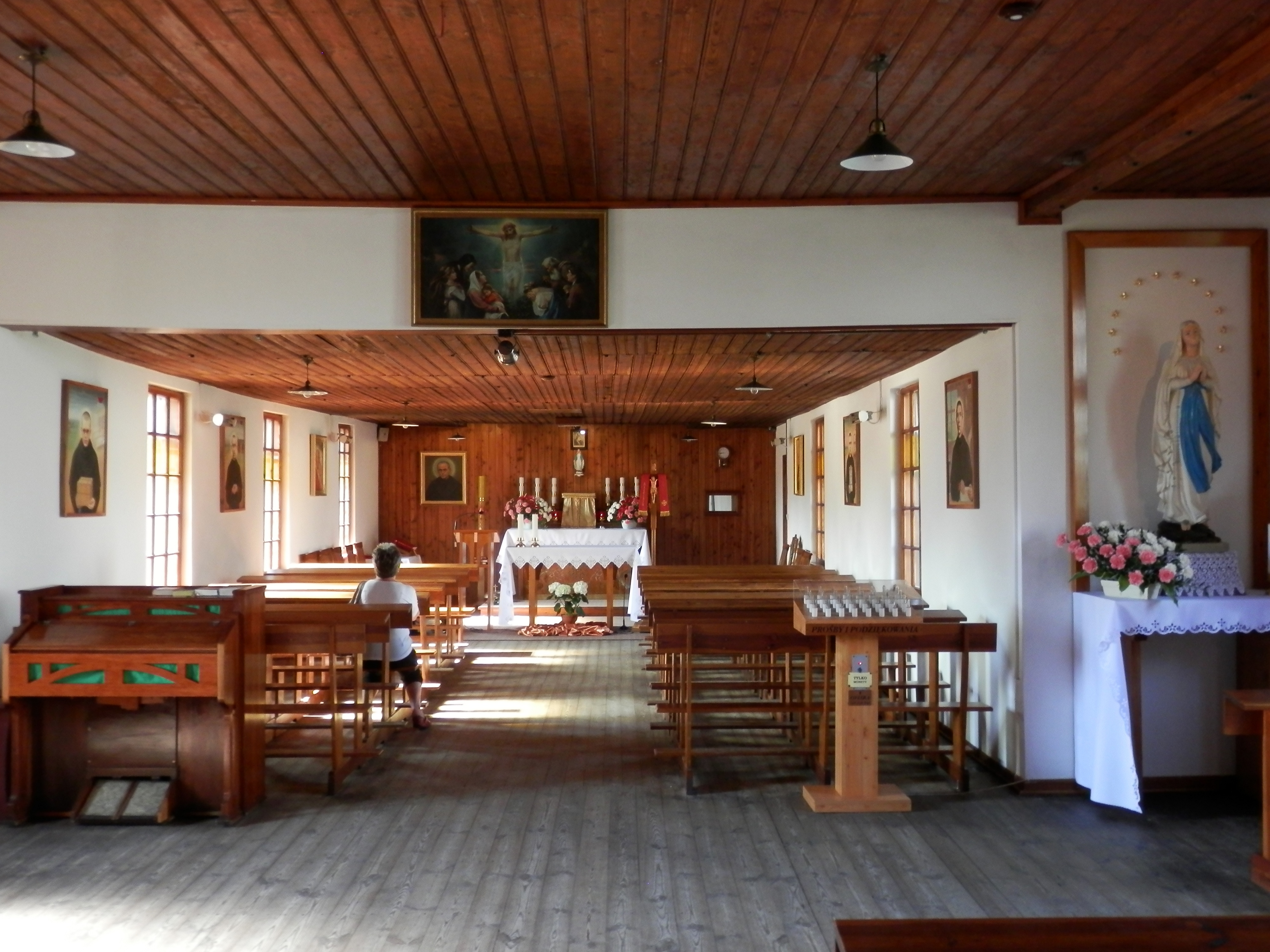 Old wooden chapel (from 1927) in Niepokalanów monastery, Poland. Interior